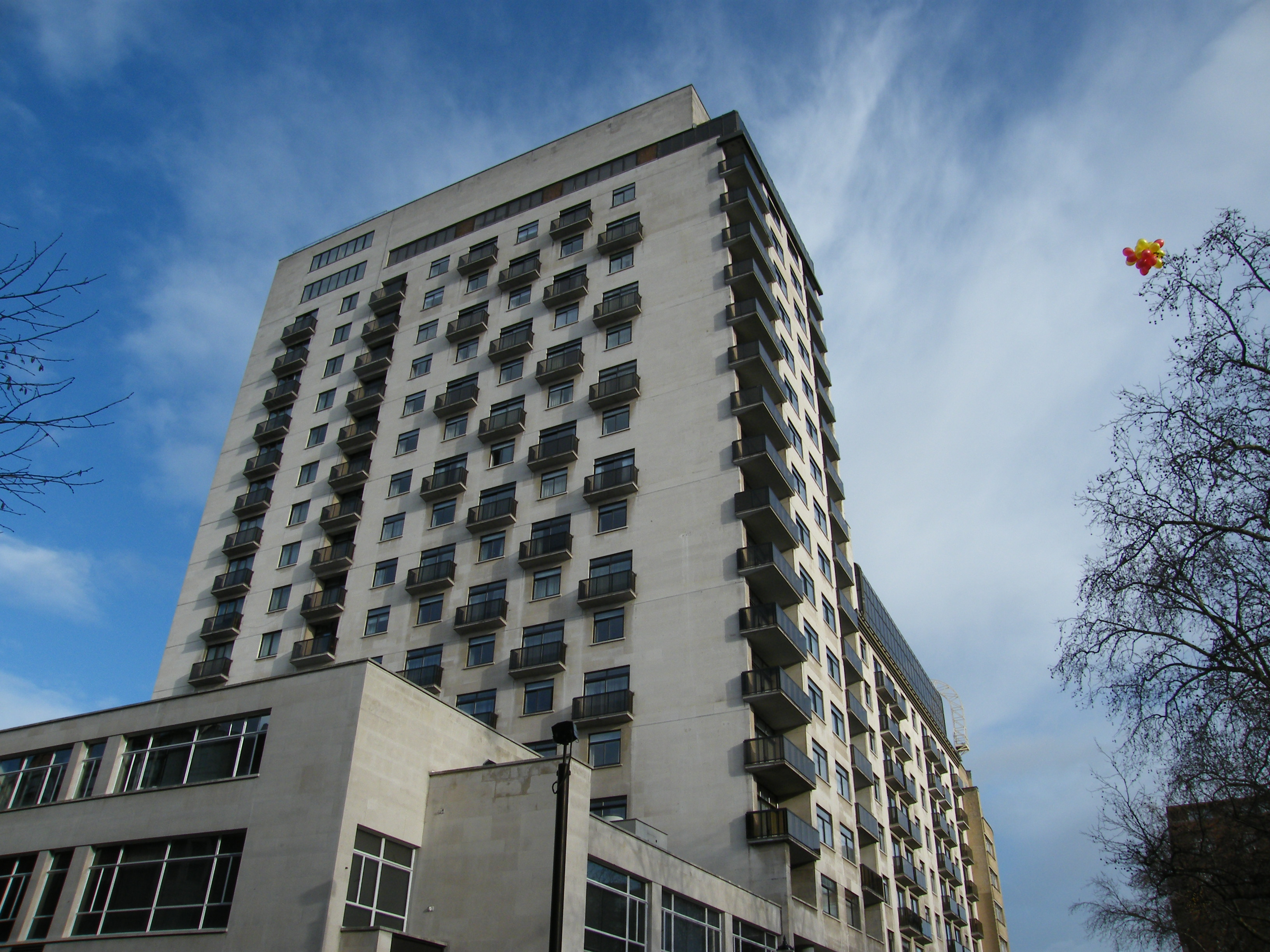 Jumeirah Carlton Tower Hotel, Cadogan Place, London, SW1X 9PY